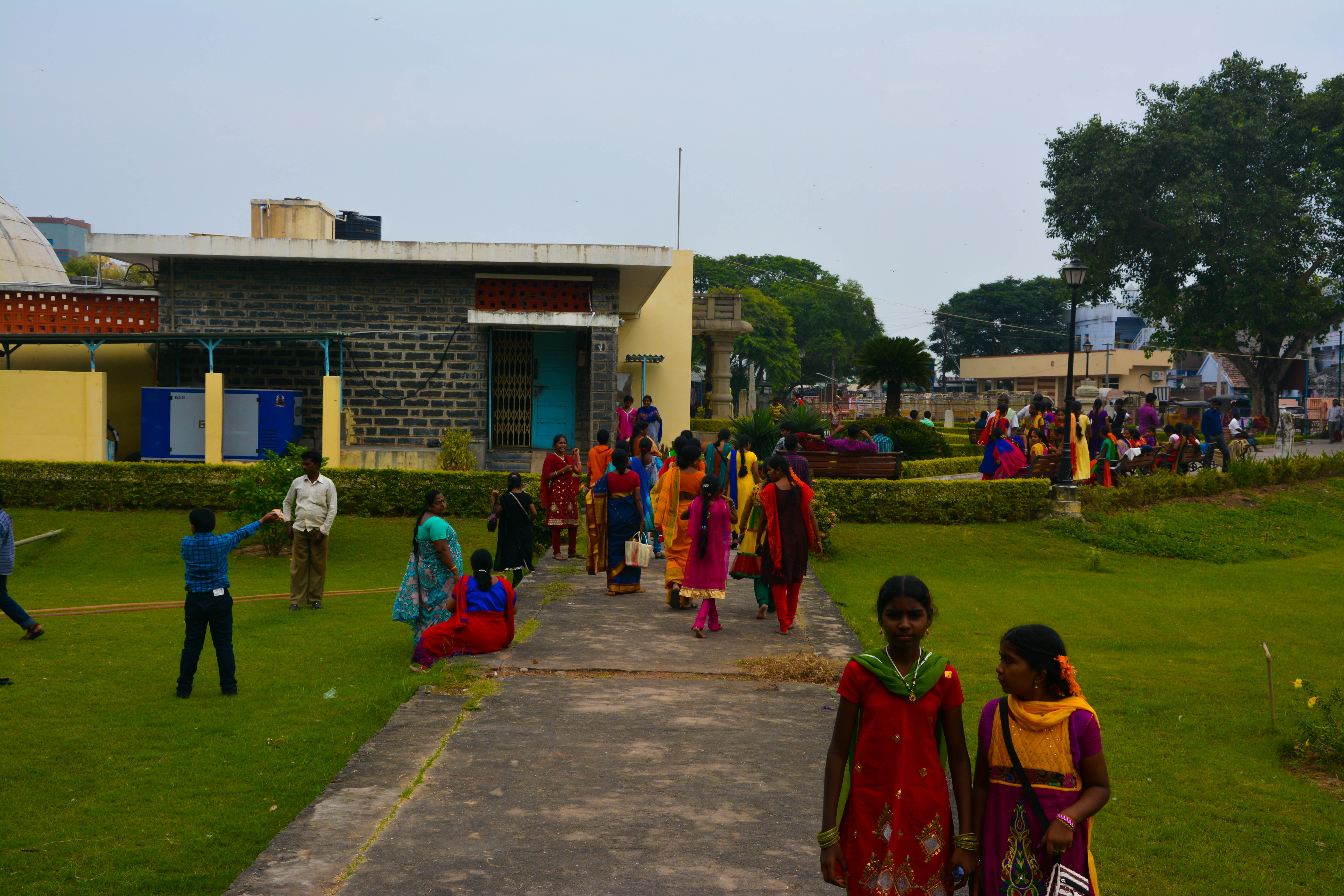 People near Archeology Museum, Amaravathi